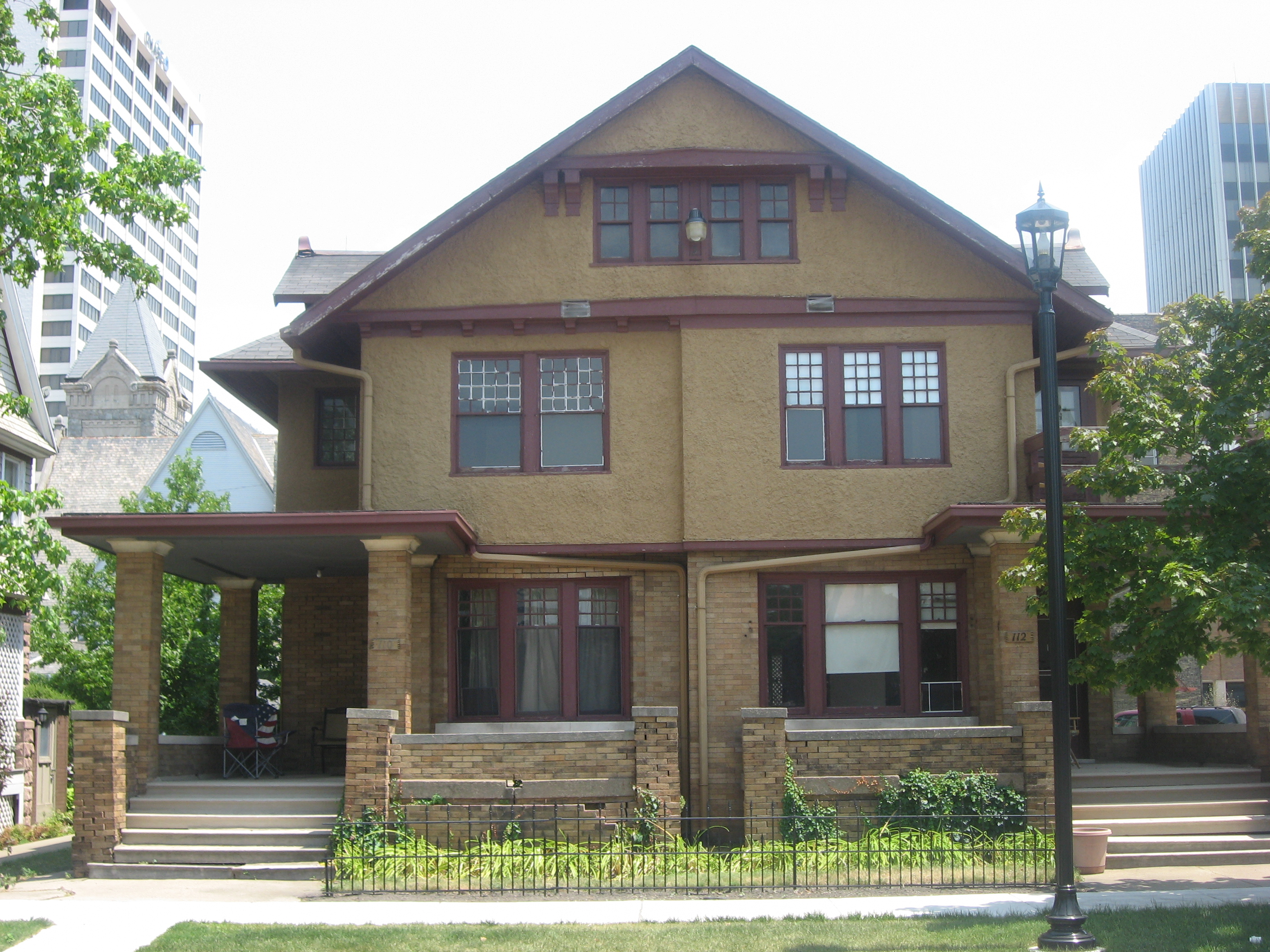 Front of the Morey House, located at 110-112 Franklin Place in South Bend, Indiana, United States. Built in 1909, it is listed on the National Register of Historic Places.